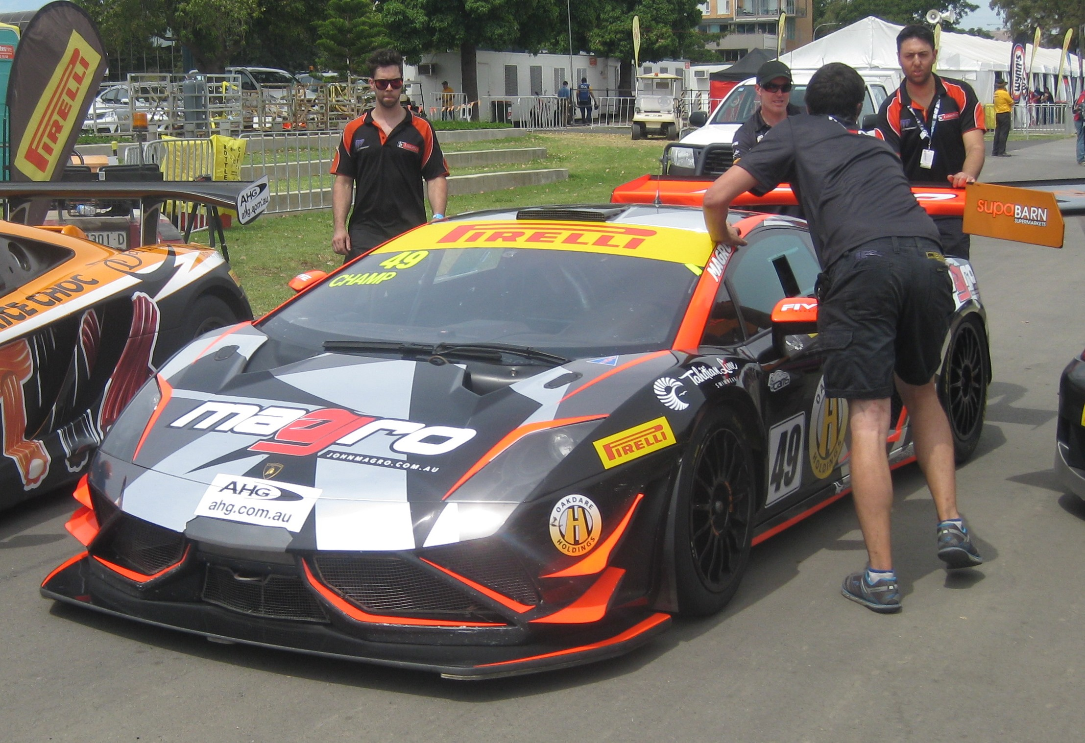 The Lamborghini Gallardo of John Magro at the opening round of the 2015 Australian GT Championship